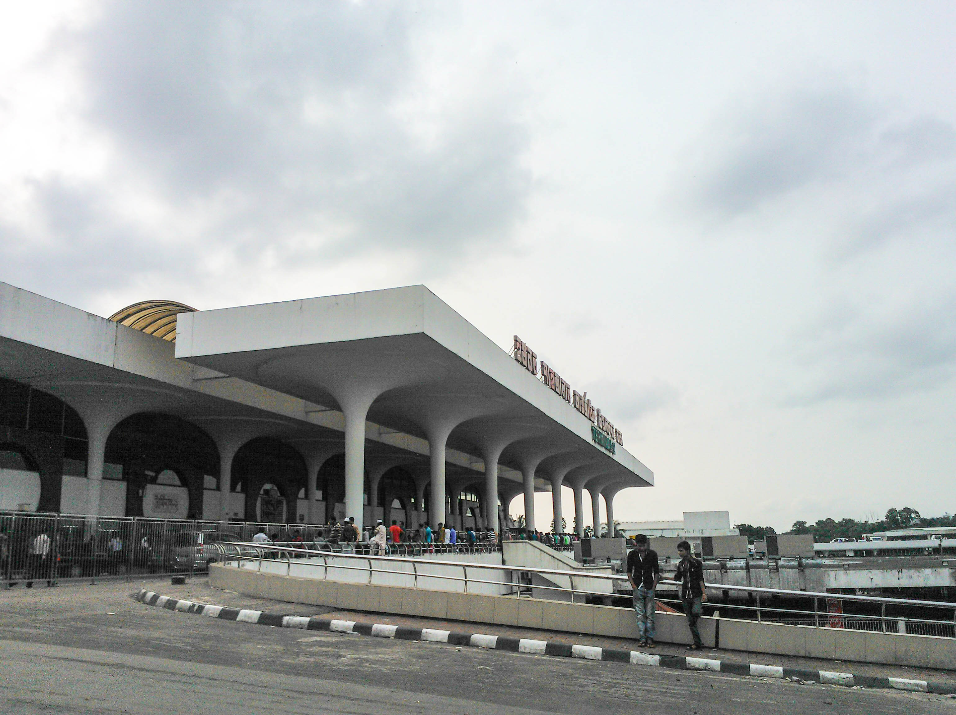 Shahjalal International Airport, Dhaka.